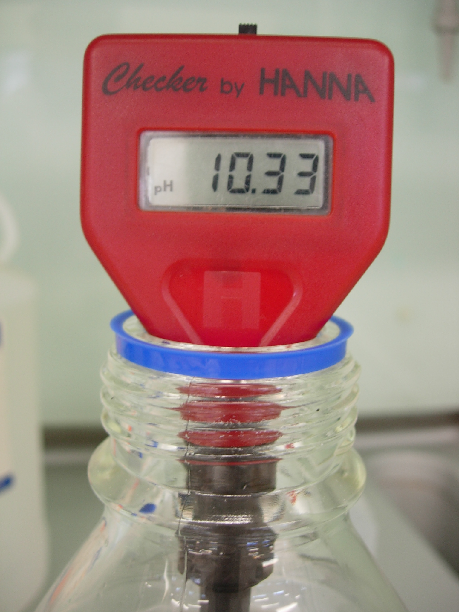 Making up a buffer solution.